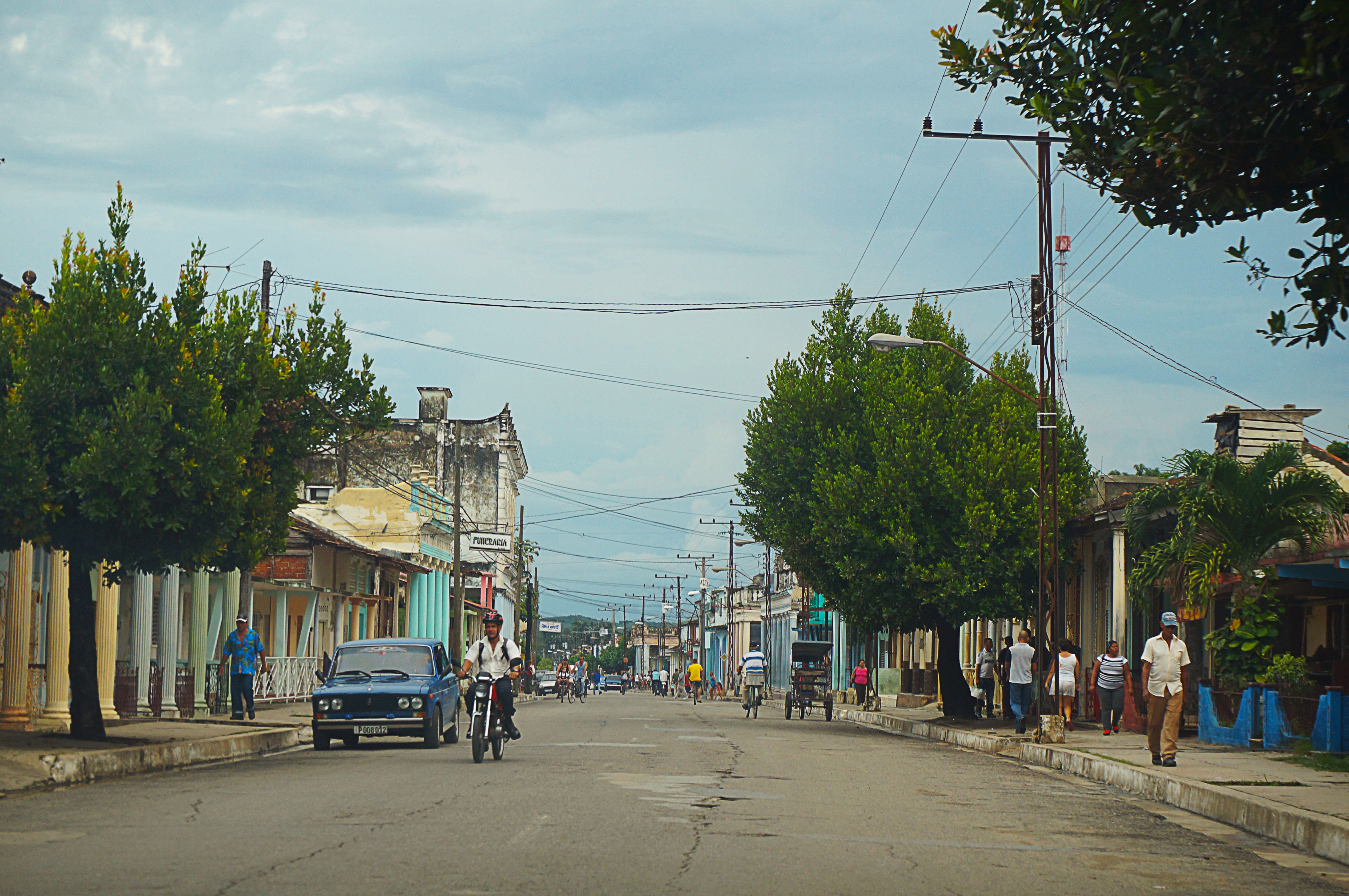 A central road in Cumanayagua, Cienfuegos Province, Cuba.